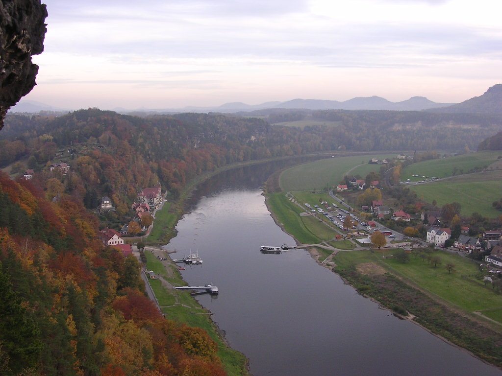 view from Bastei to the river Elbe and health resort Rathen (district Oberrathen)